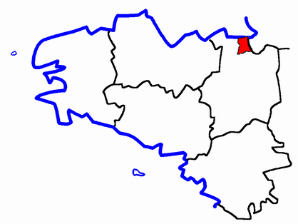 Description: Map for localisazion of cantons of Bretagne region in France Source: made by Hervé Tigier from another large map